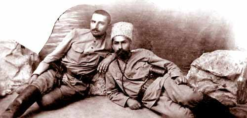 Simon Vratsyan and Drastamat Kanayan.